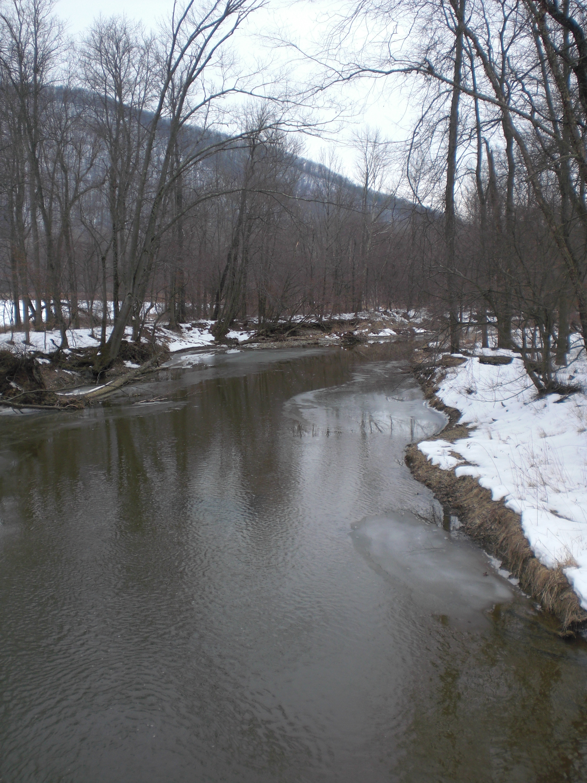 Green Creek, a tributary of Fishing Creek